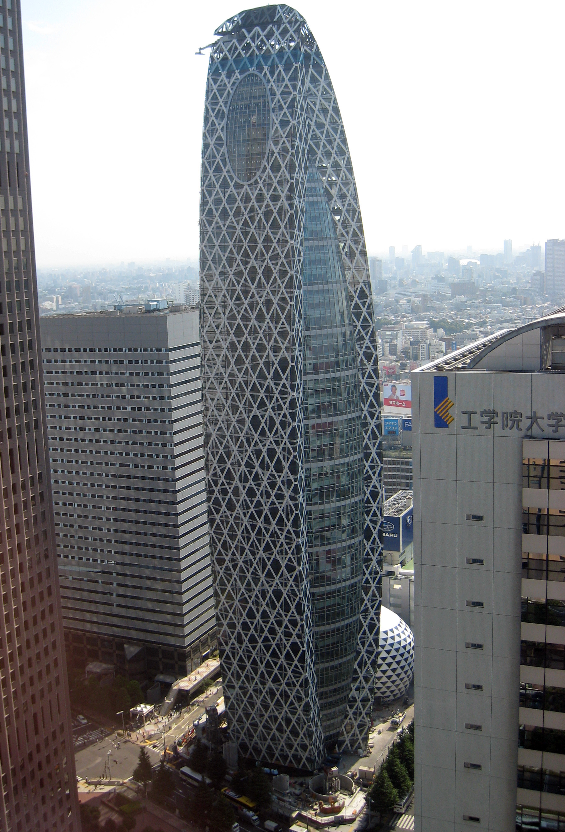 Subaru and Fuji Heavy Industries Headquarters.